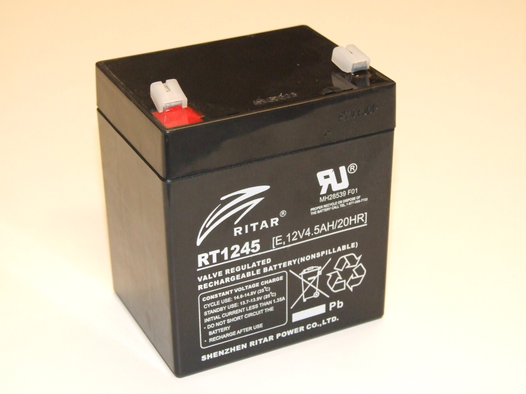 12V VRLA Battery.jpg